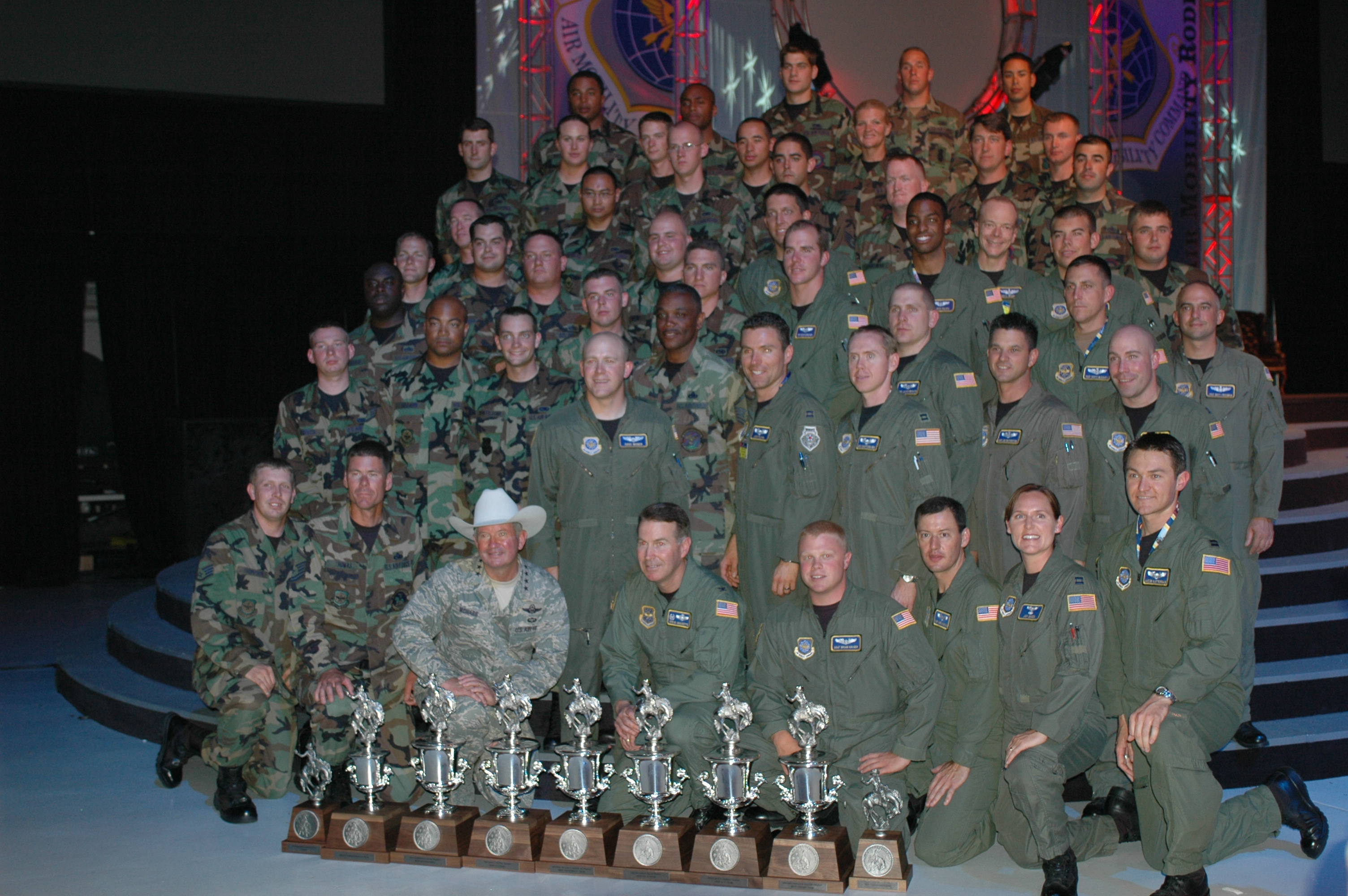 Team Travis celebrates their win during the closing ceremony of the 2007 Air Mobility Command’s Expeditionary Rodeo competition July 27 at McChord Air Force Base, Wash. Travis won the “Best Air Mobility Team” award presented by Gen. Duncan McNabb, commander of Air Mobility Command.